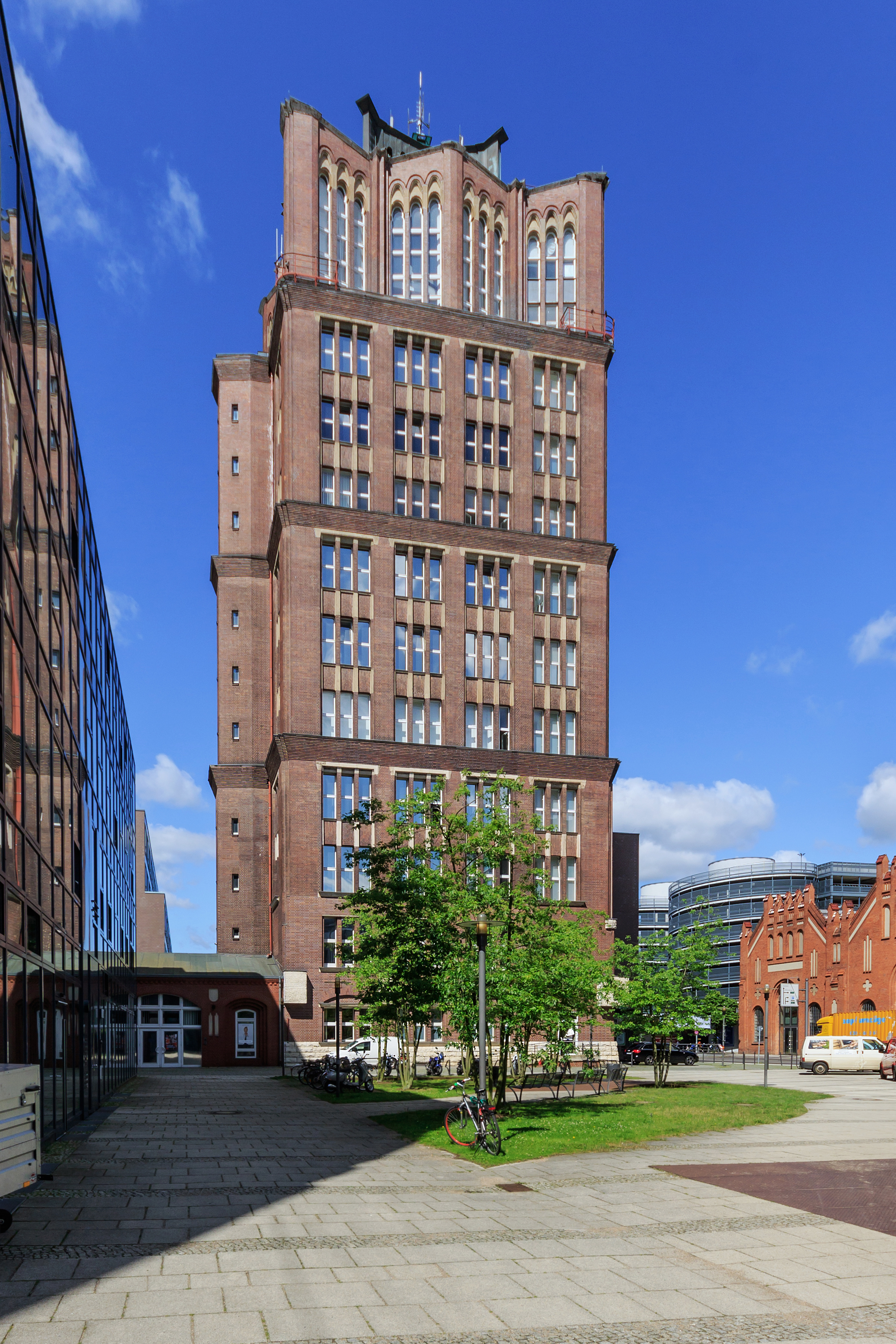 Former Borsig AG plant in Berlin (Germany)